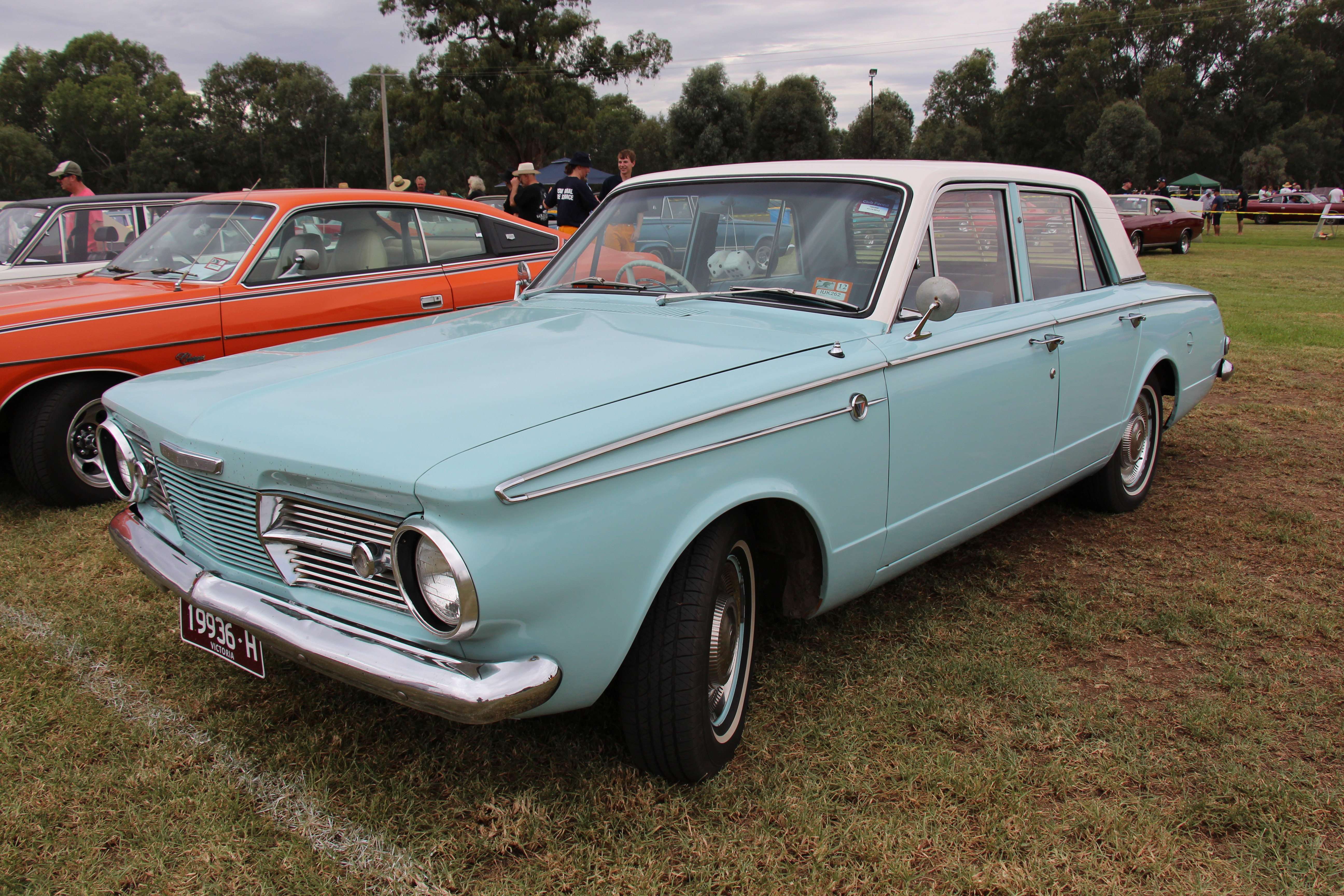 Chrysler Valiant AP6 Sedan